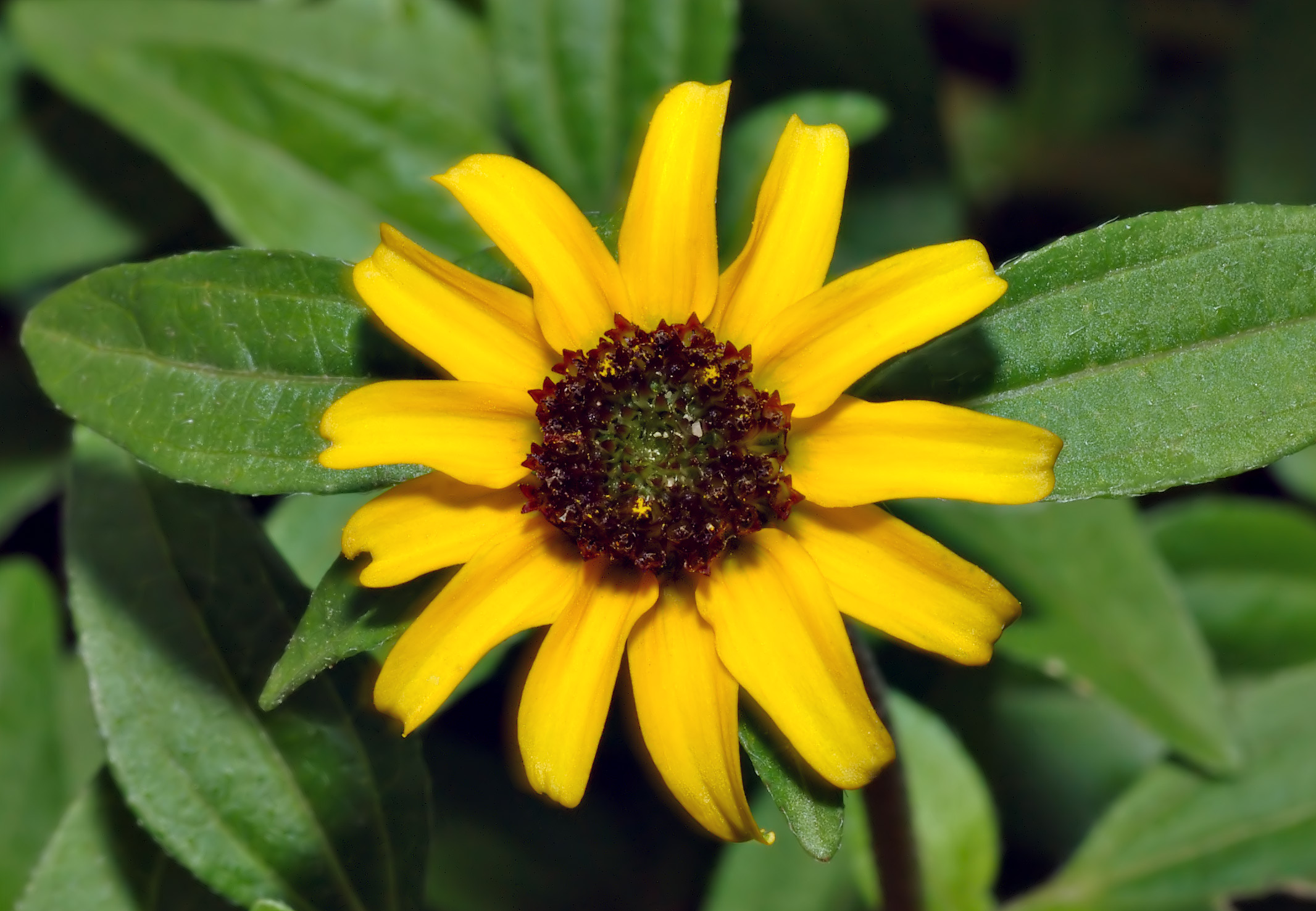 This image shows a Creeping Zinnia plant (Sanvitalia procumbens).